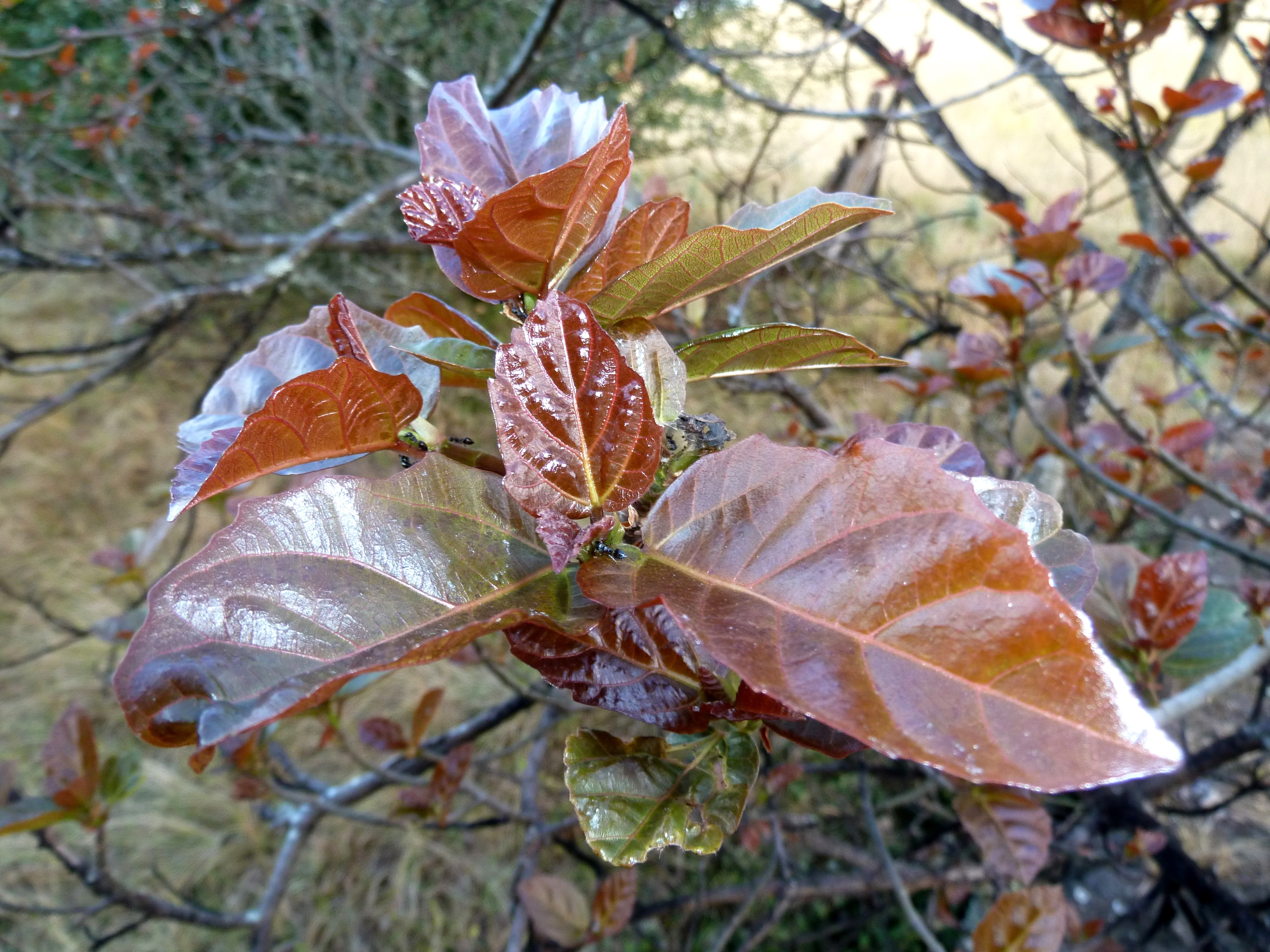 Fresh winter leaves of a Cape fig, near Louwsburg, KwaZulu-Natal. Argentine ants are patrolling the leaves.